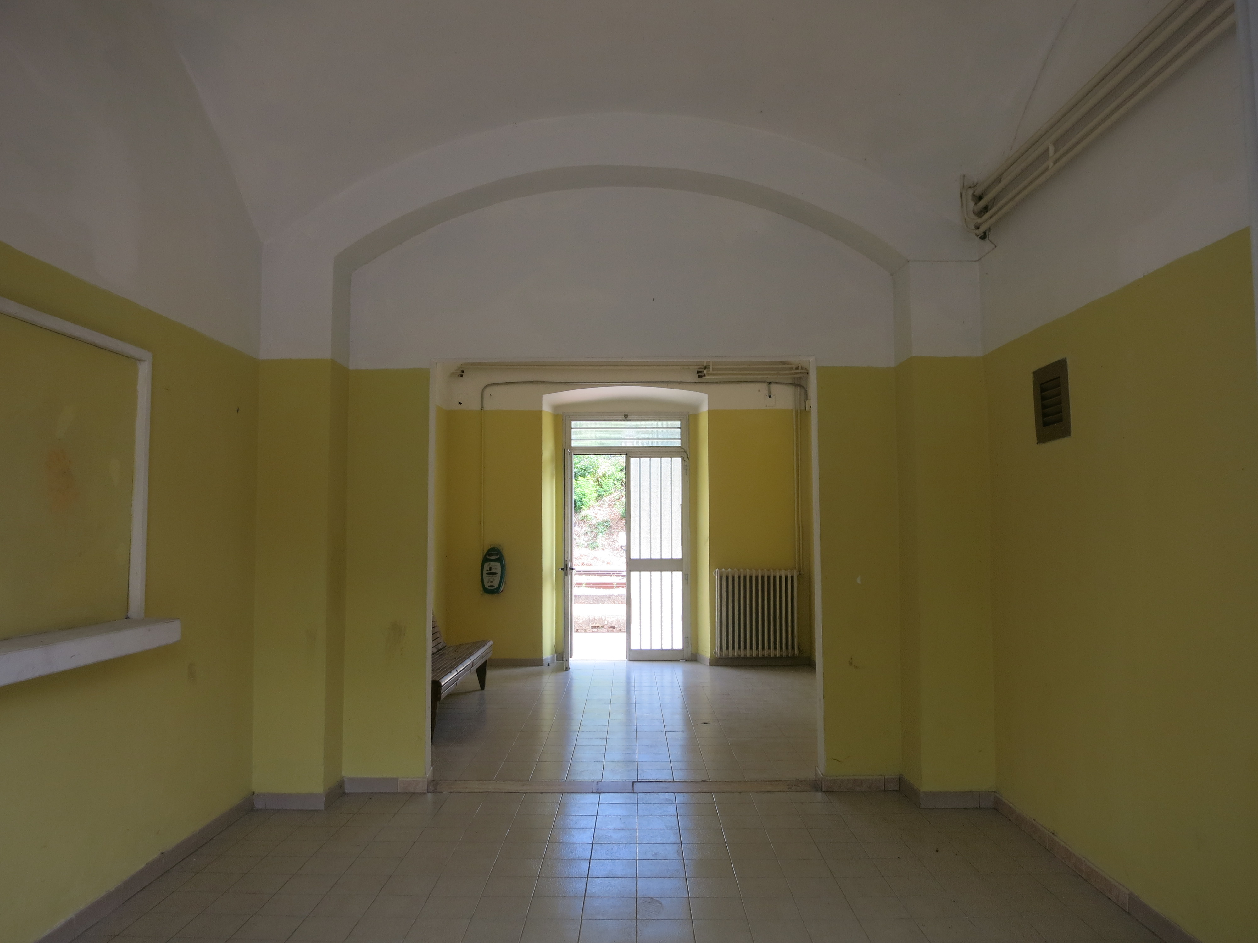 Antrodoco-Borgo Velino train station (province of Rieti, Lazio, Italy), on the Terni-Rieti-L'Aquila-Sulmona line.